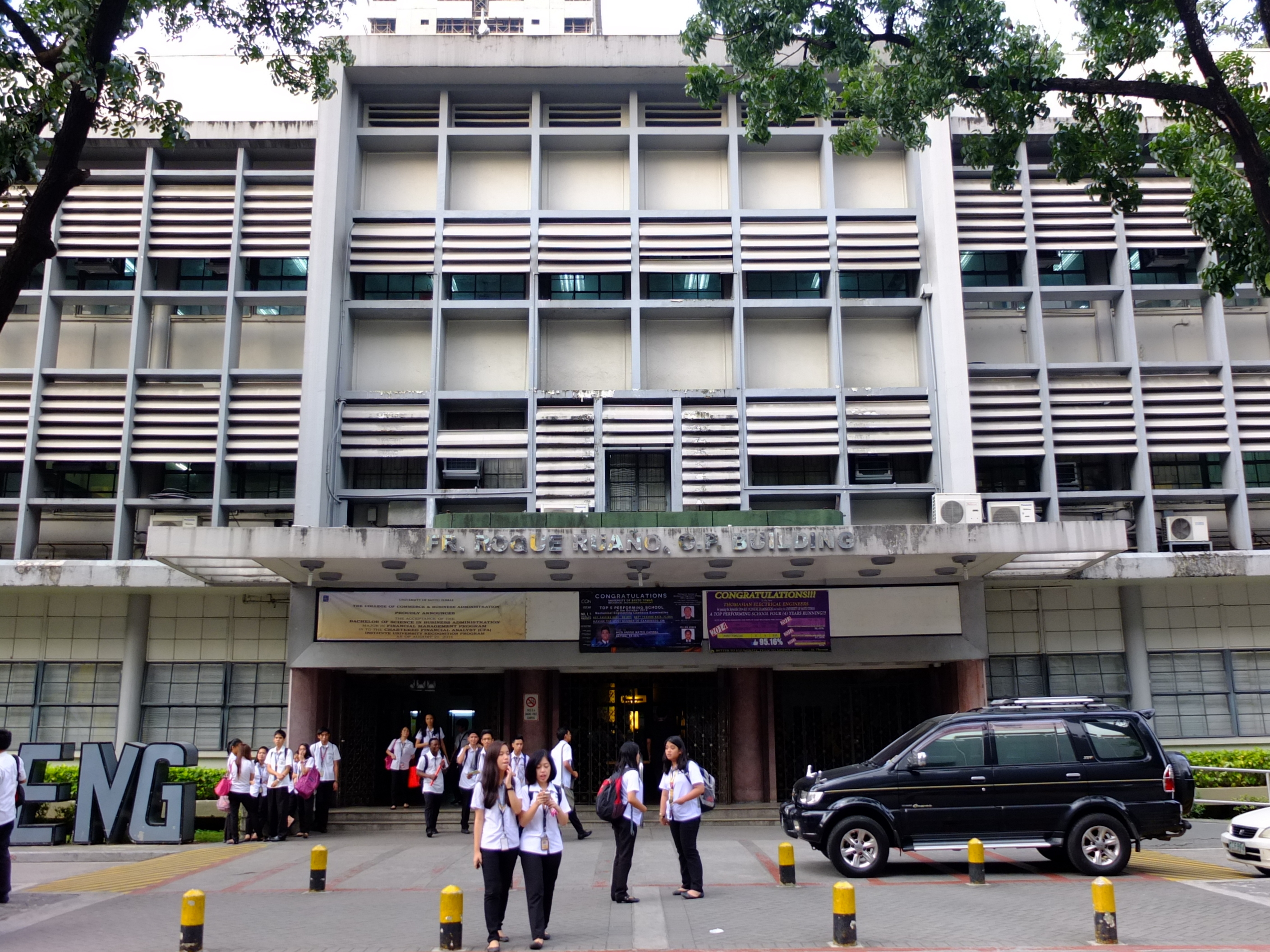 Facade of Roque Ruano Building